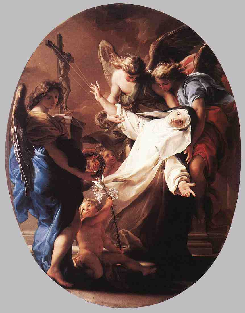 The Ecstasy of St Catherine of Siena (Museo di Villa Guinigi, Lucca) Oil on canvas